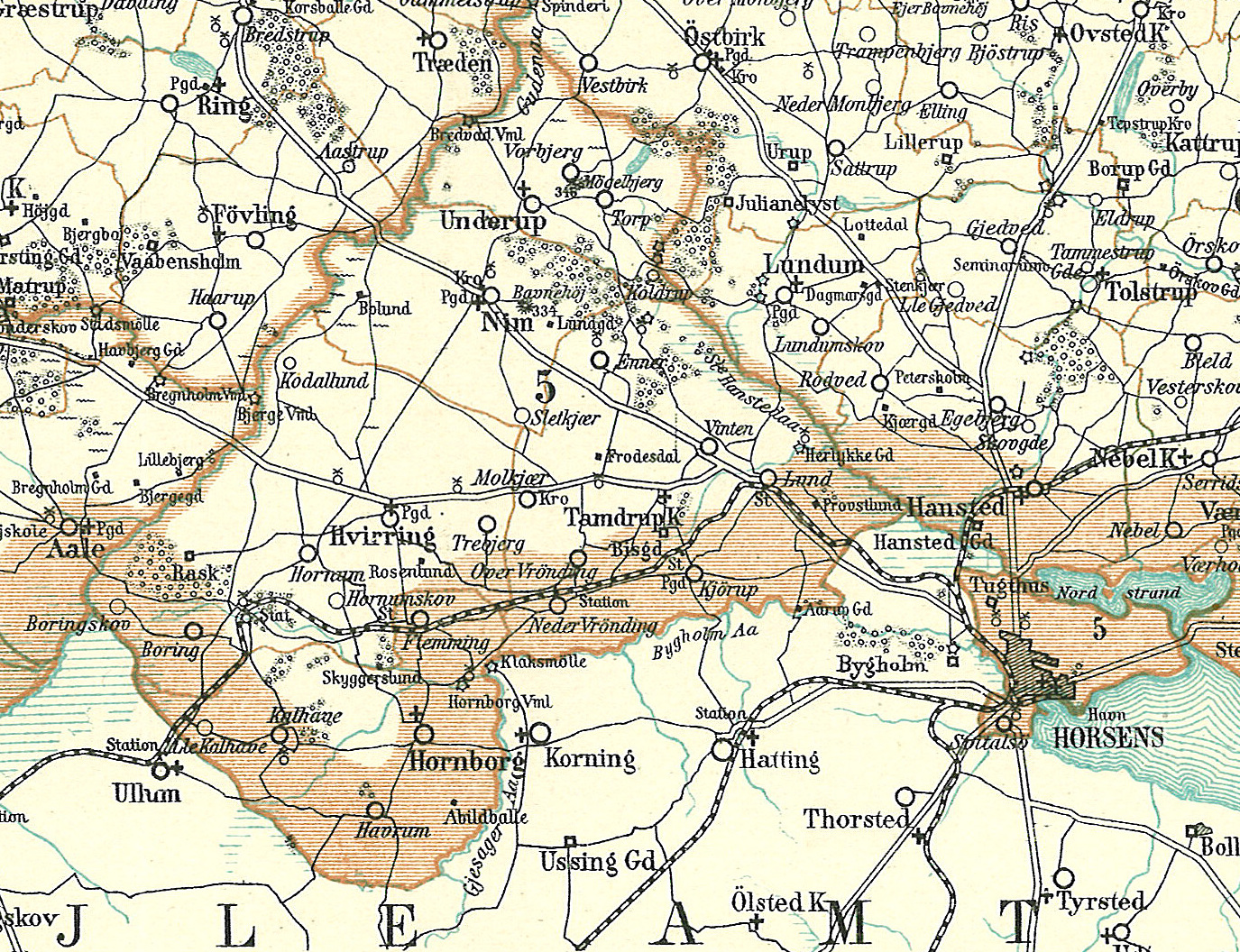 Map of Nim Herred in Skanderborg County (without the island Endelave) in Denmark